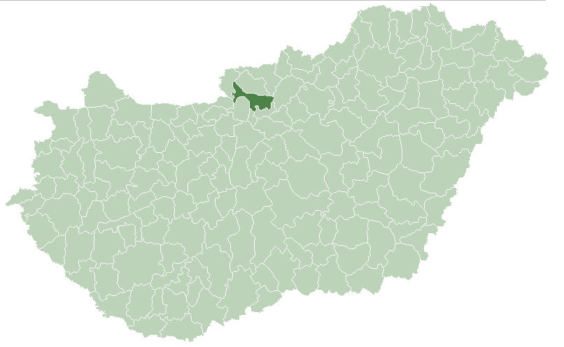 Location of subregion Vác, Hungary